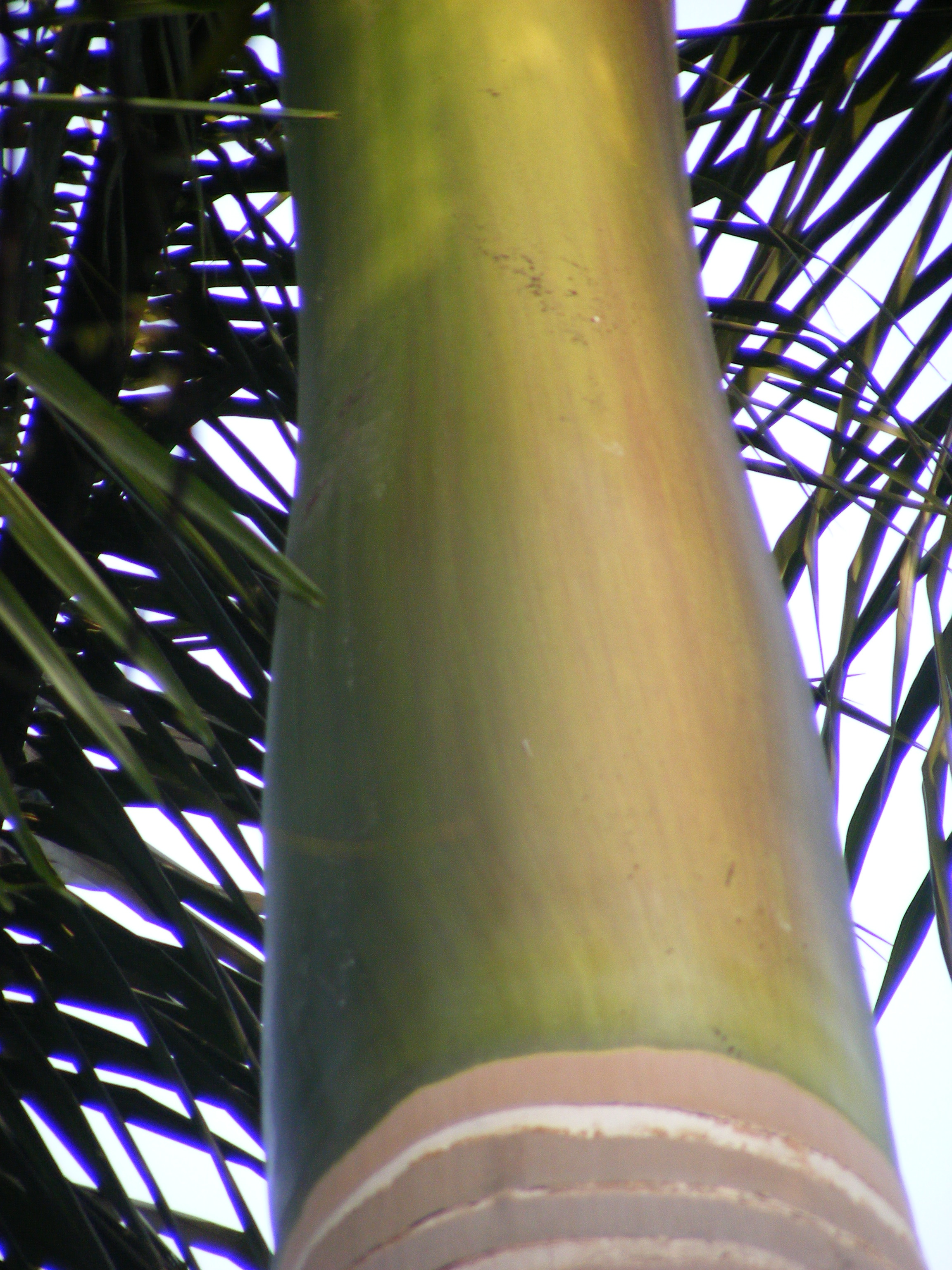 A close up view of a leaf sheath of the Royal Palm